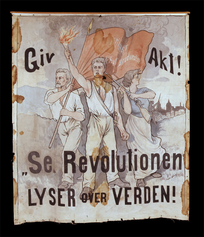 A revolutionary banner from 1918 or 1919 in Norway. Included in the Norwegian Documentary Heritage/Norges dokumentarv Artist: Oscar Løvaas